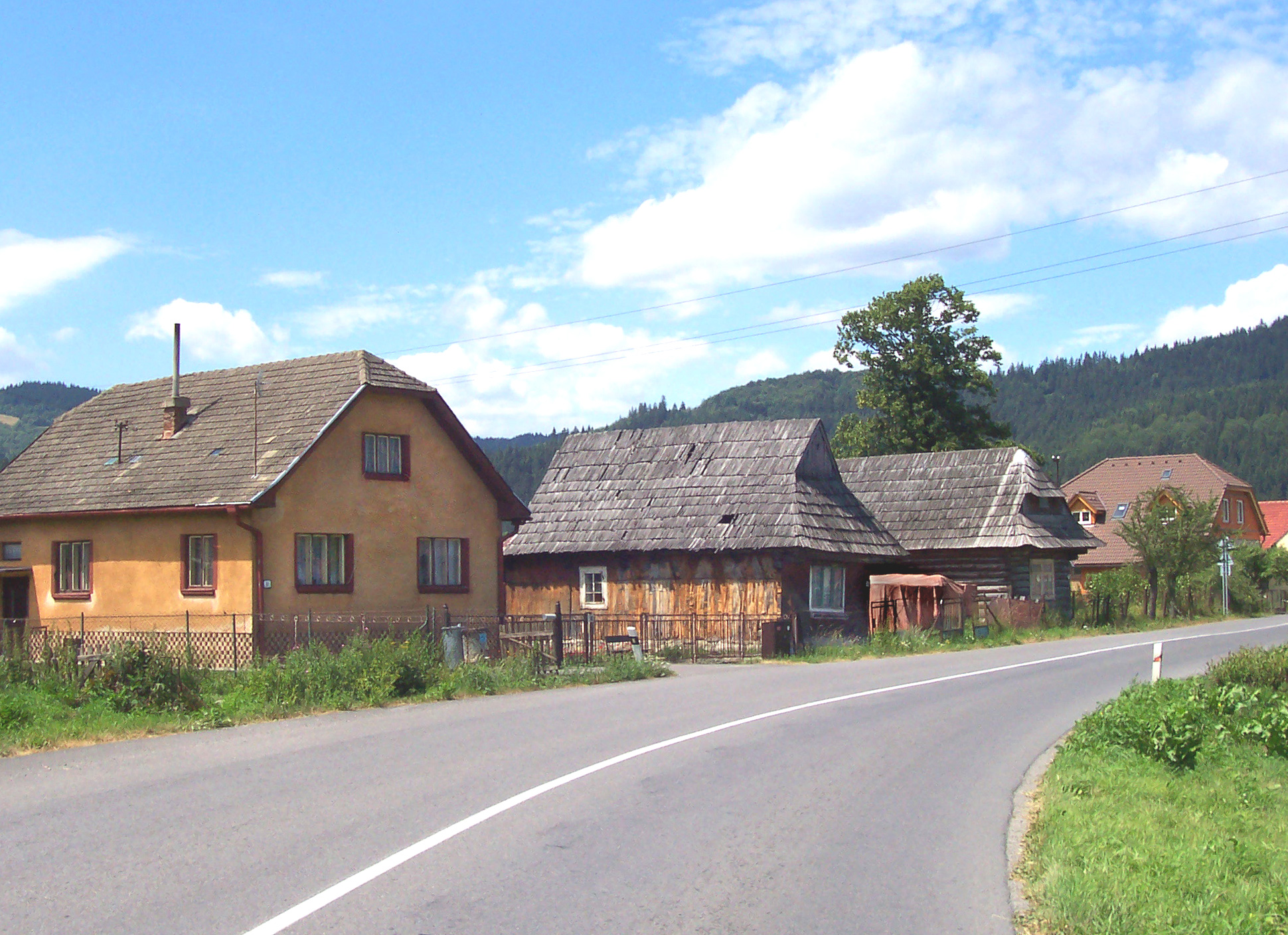 Podbiel village. Orava, Slovakia